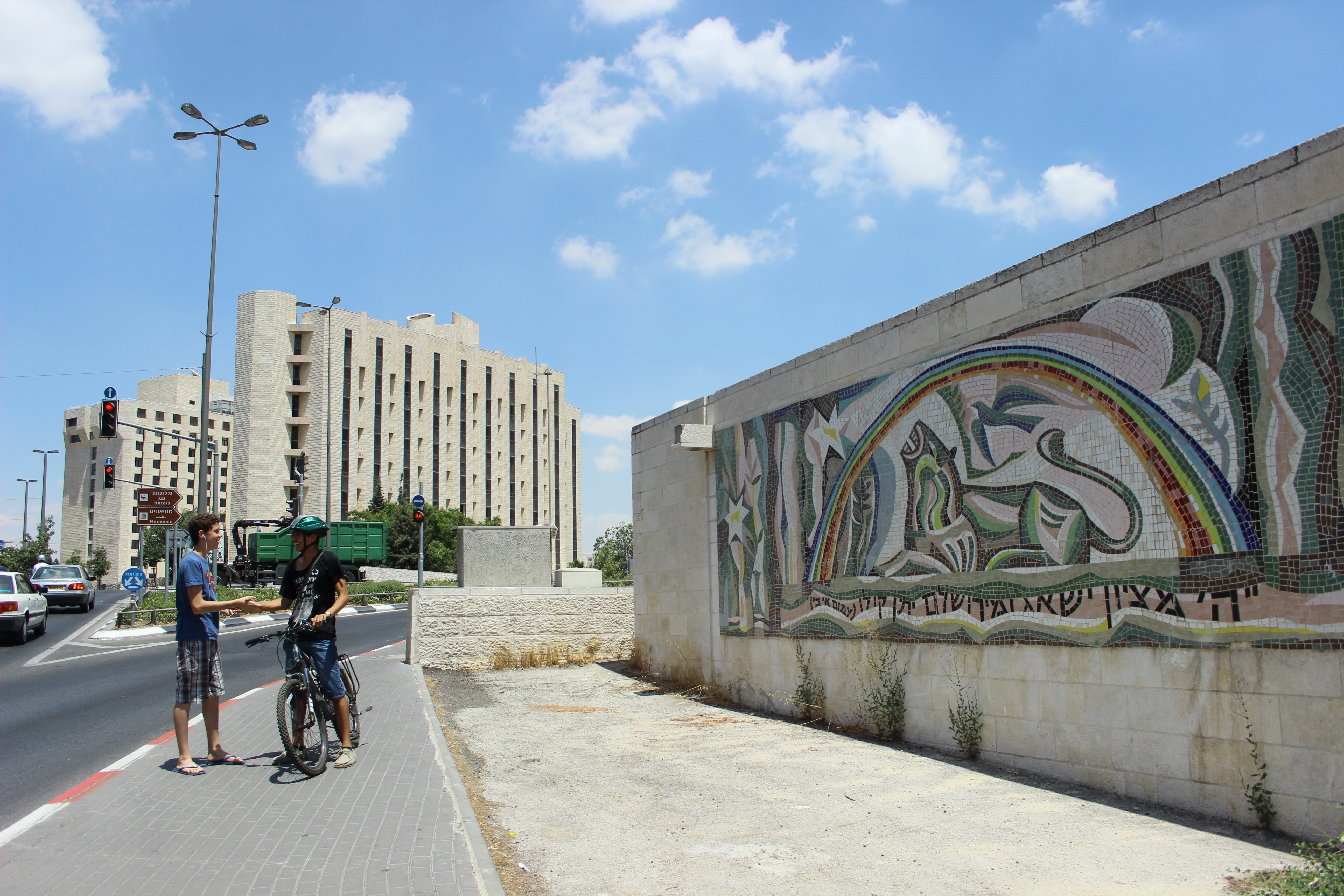 Jerusalem, Kiryat Moshe, corner of Sderot Herzl and Sderot Wolfson, lion Mosaic with biblical verse : "The LORD will roar from Zion, and utter his voice from Jerusalem" Amos 1:2. Jerusalem is also known as "Ariel" (Lion of God) and belongs to the tribe of Judah that his symbol is the lion. The lion is a constant symbol in Jerusalem. In photography, mosaic of lion on Avenue Herzl, in it a verse: "God will roar from Zion, and will give his voice from Jerusalem (Amos 1:2). Photographic Collection Jerusalem Lions.